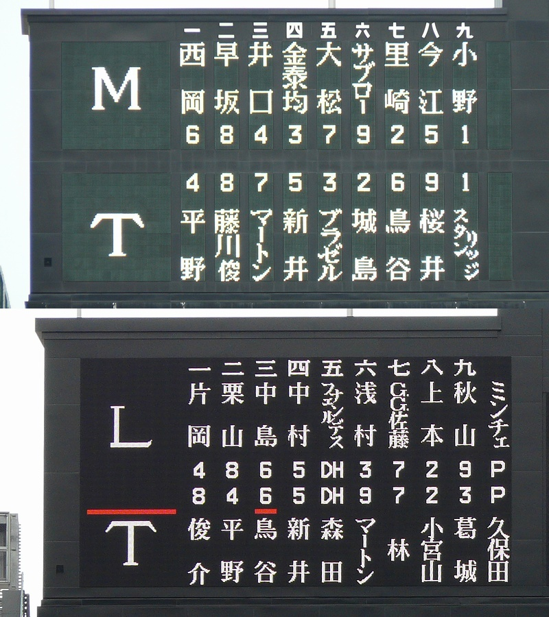 Hanshin_Koshien_Stadium7